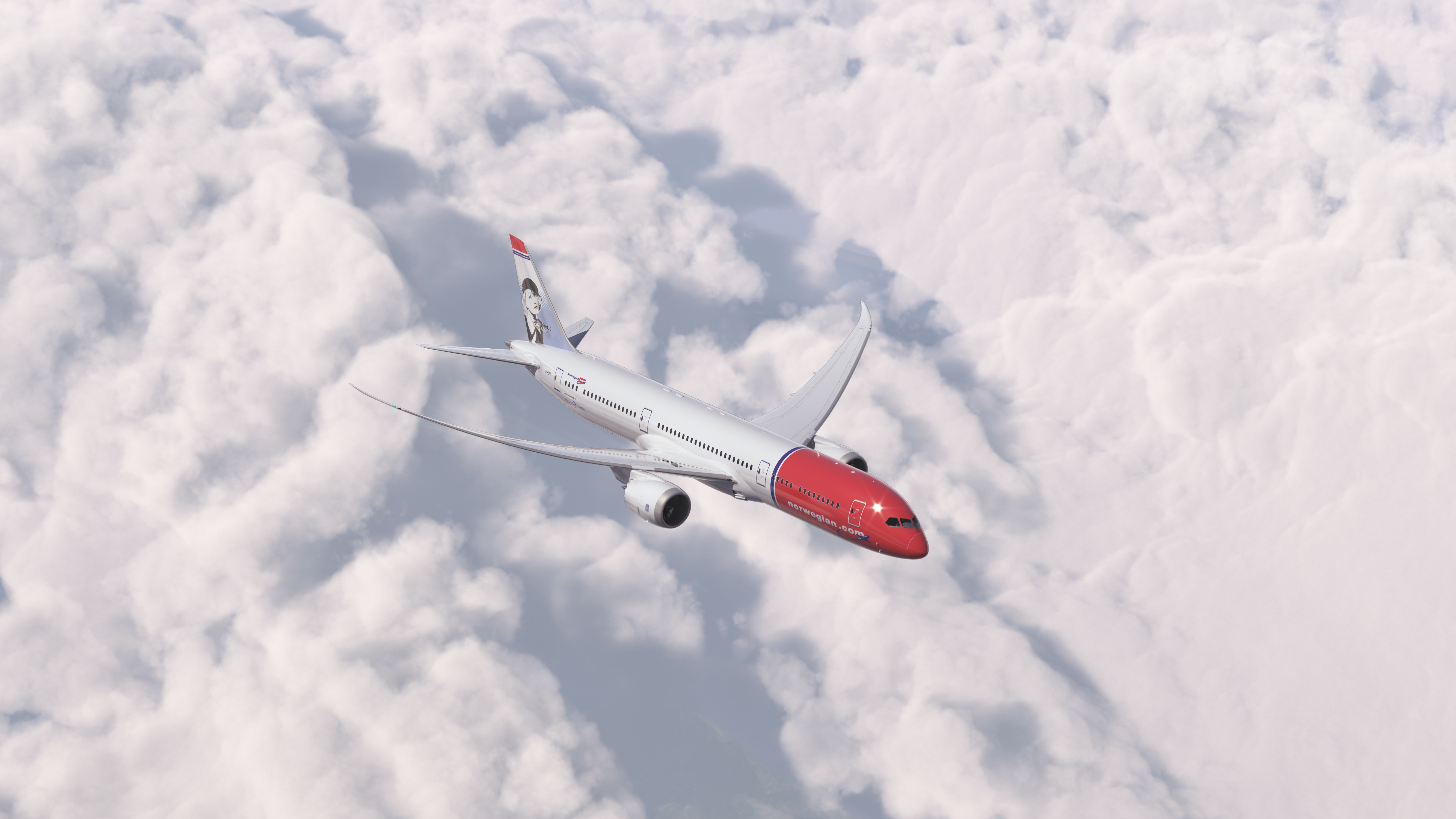 Rendering of a Norwegian Boeing 787-9